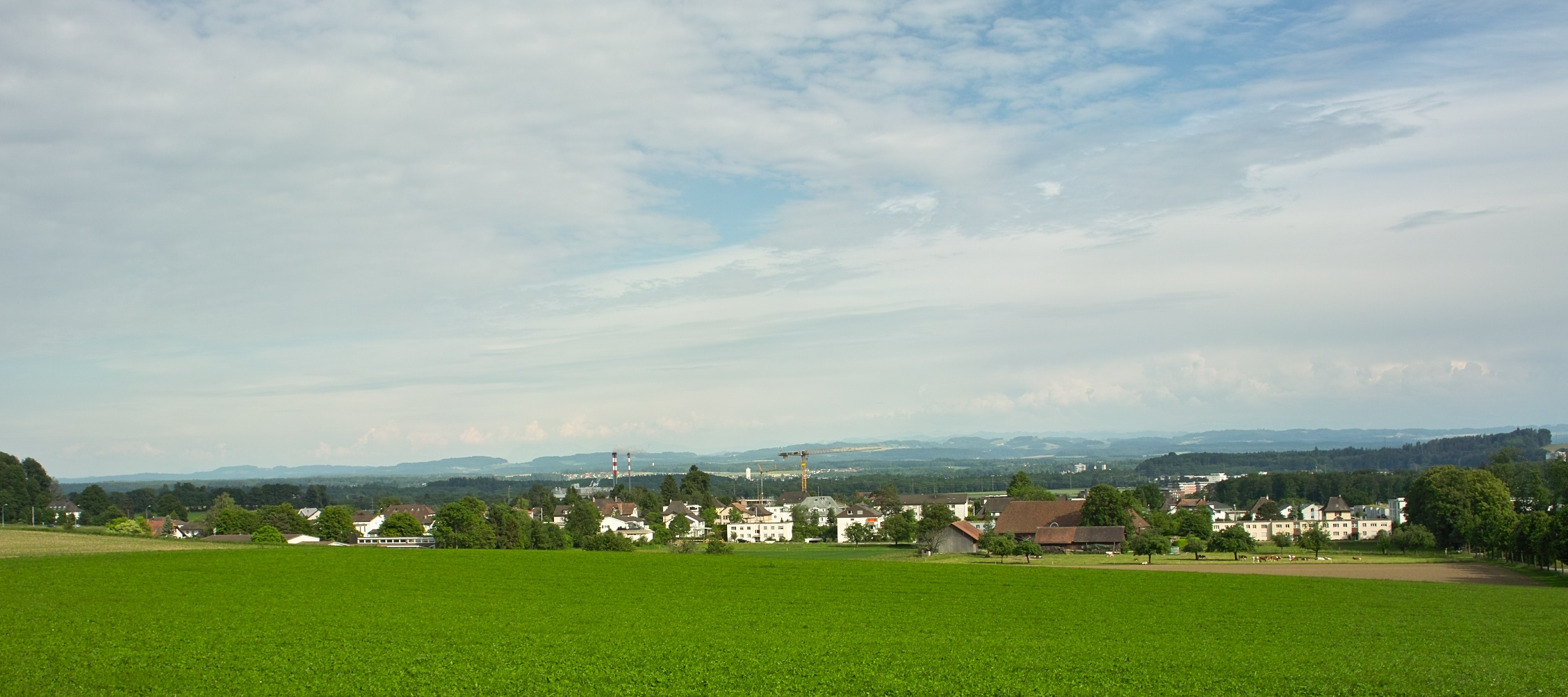 View of Feldbrunnen, canton of Solothurn, Switzerland.